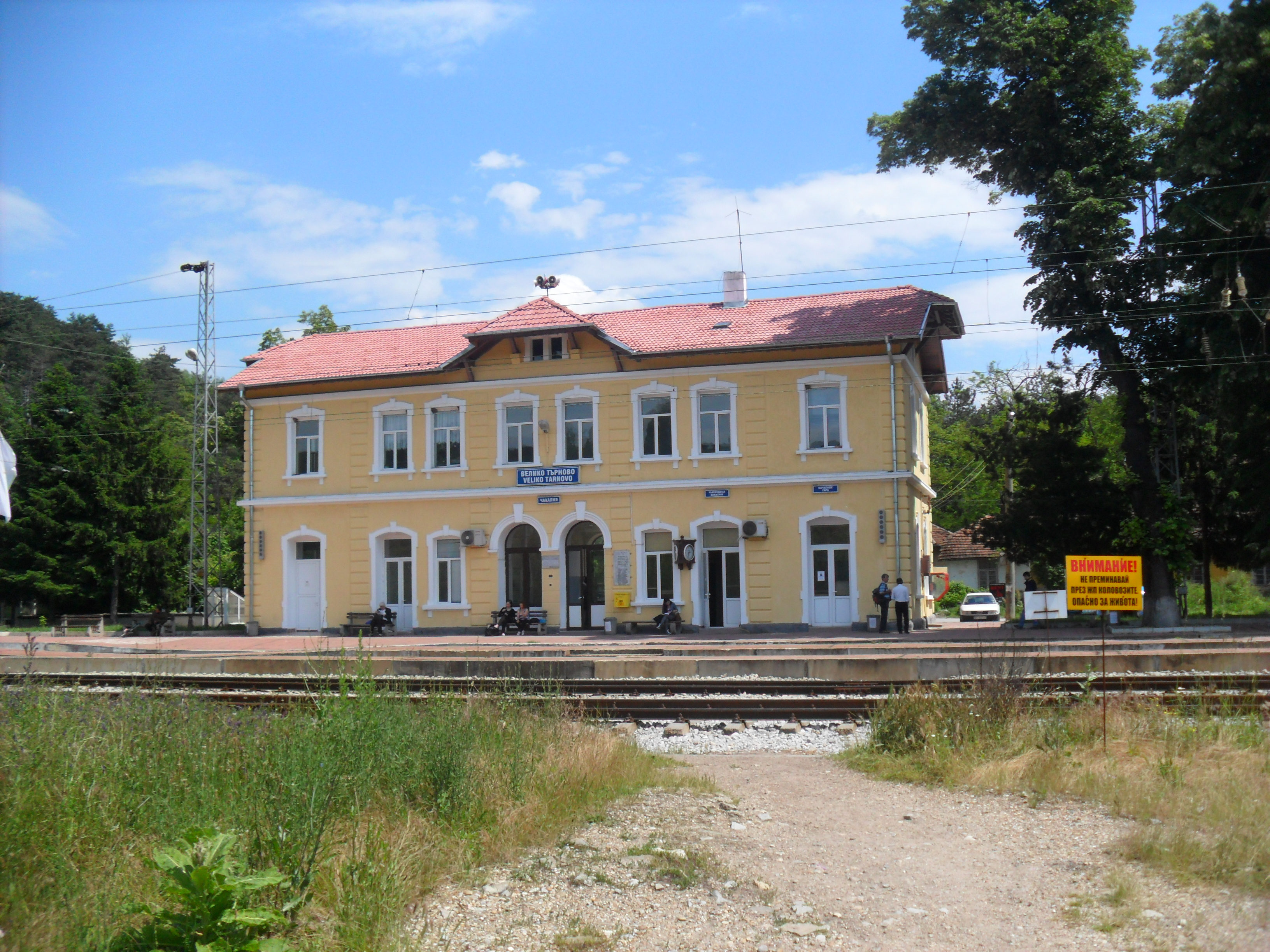 Rail Station in Veliko Tarnovo builded in 1901